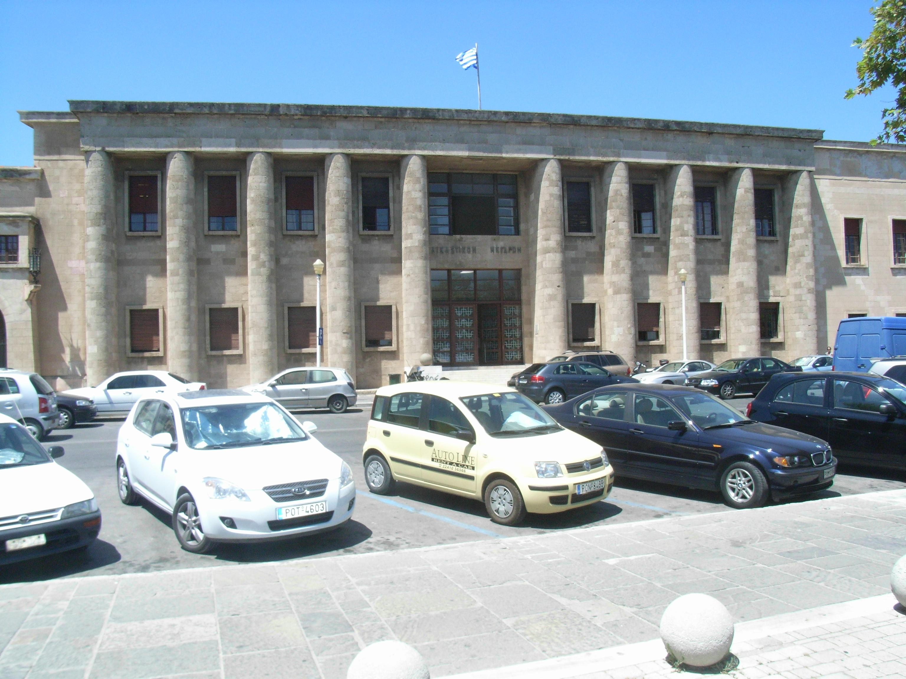 Palazzo di Giustizia 1924 Architects Florestano Di Fausto and Rodolfo Petracco